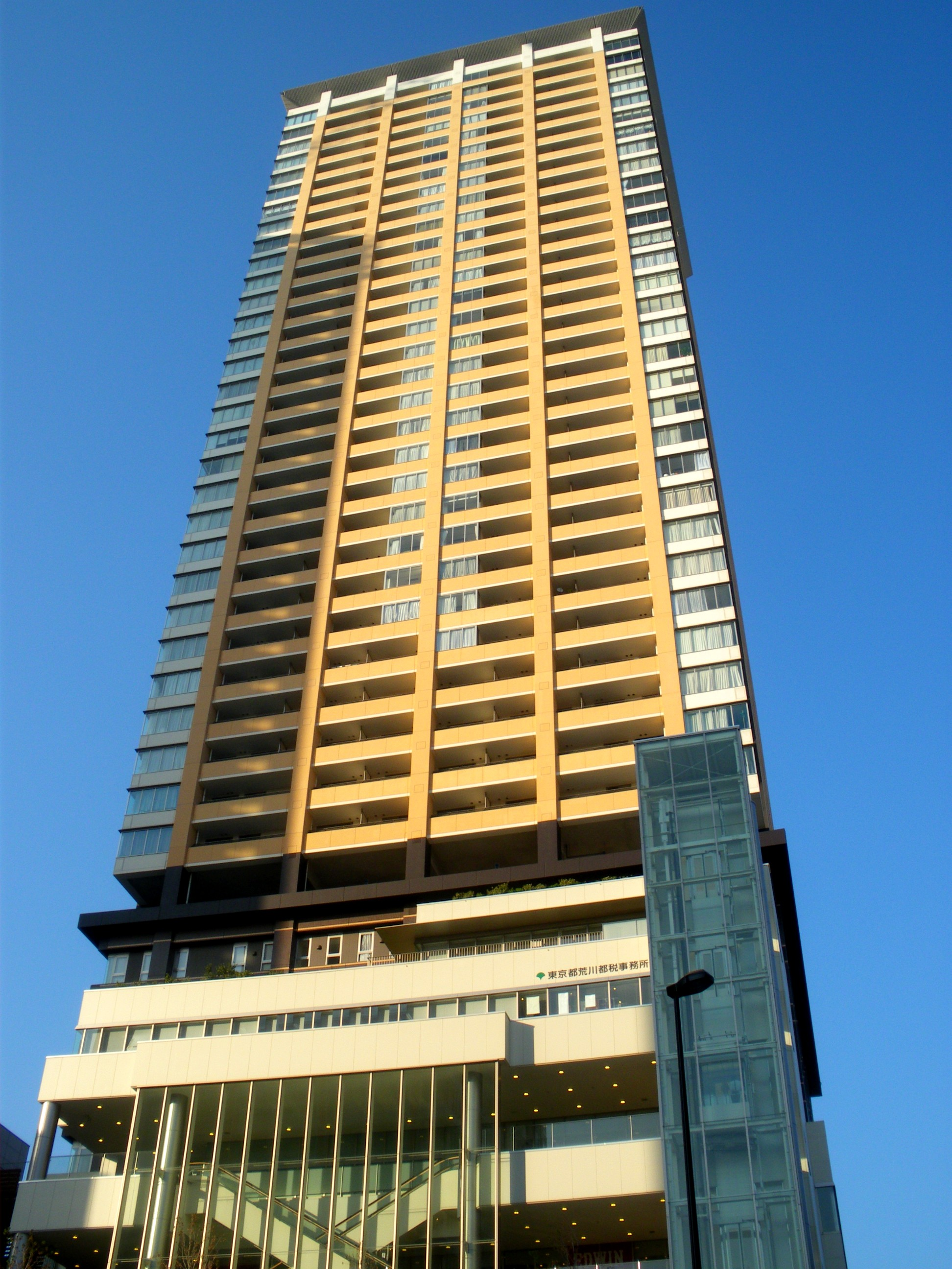 A photo of Station Garden Tower,Nishinippori,Arakawa-ku,Tokyo,Japan.